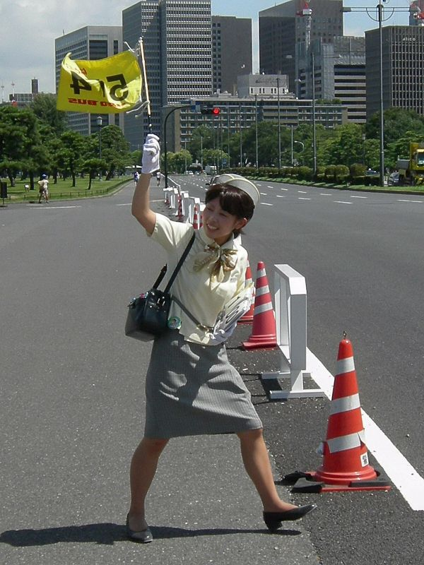 A female tour guide in Japan.